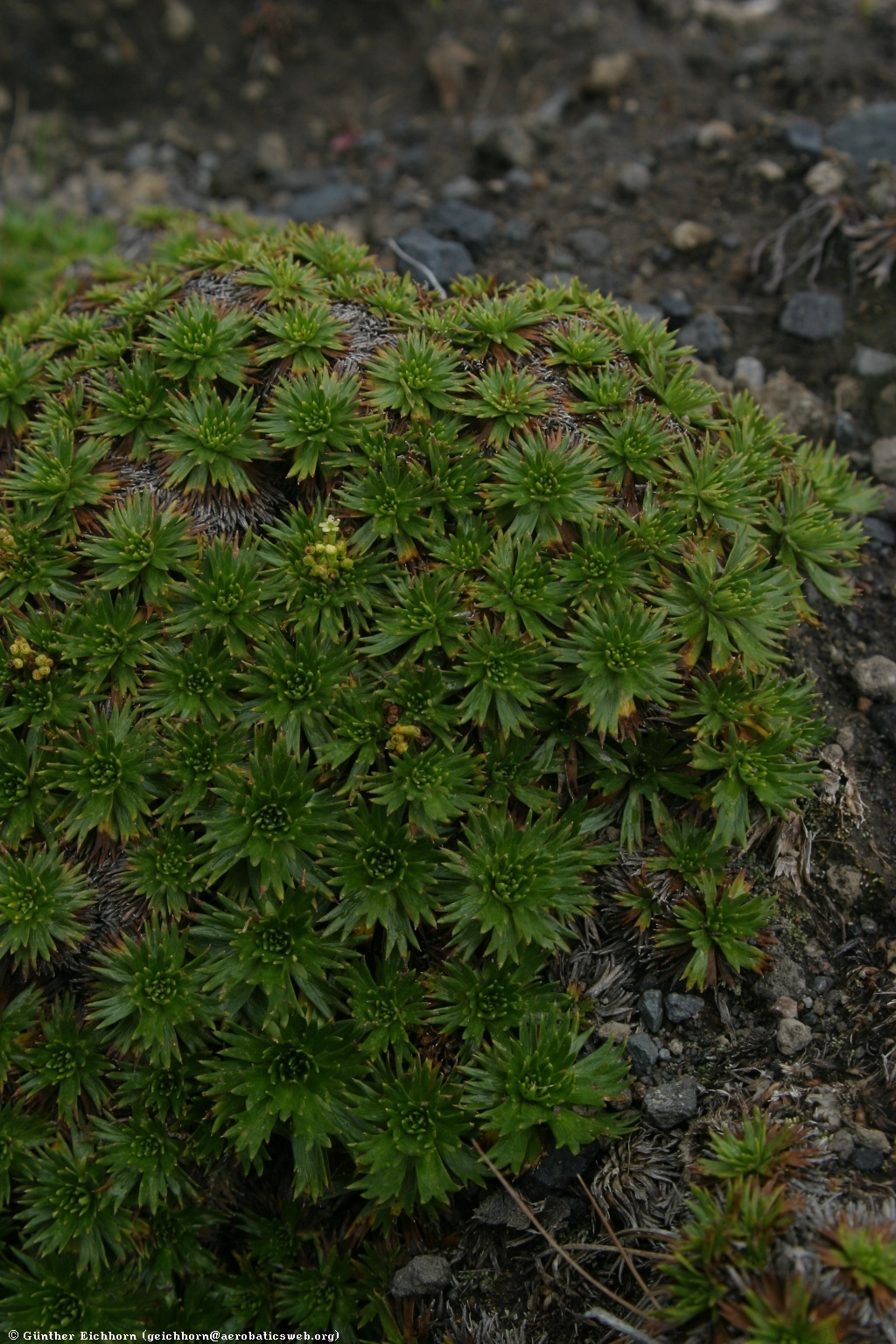 Azorella pedunculata